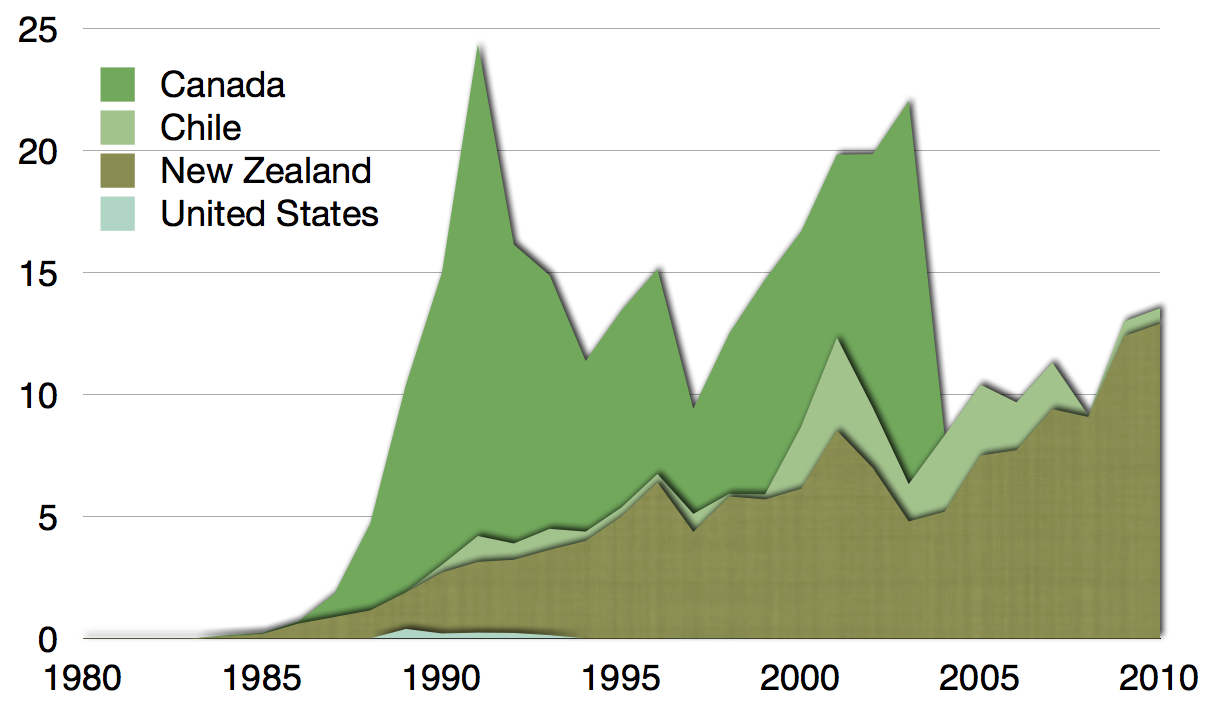 Aquacultural production of Chinook salmon, Oncorhynchus tshawytscha, by country in thousand tonnes, 1950–2010, as reported by the FAO. Based on data sourced from the FishStat database